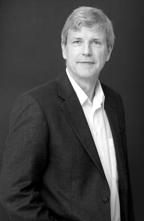 Tomas Salzmann, photo